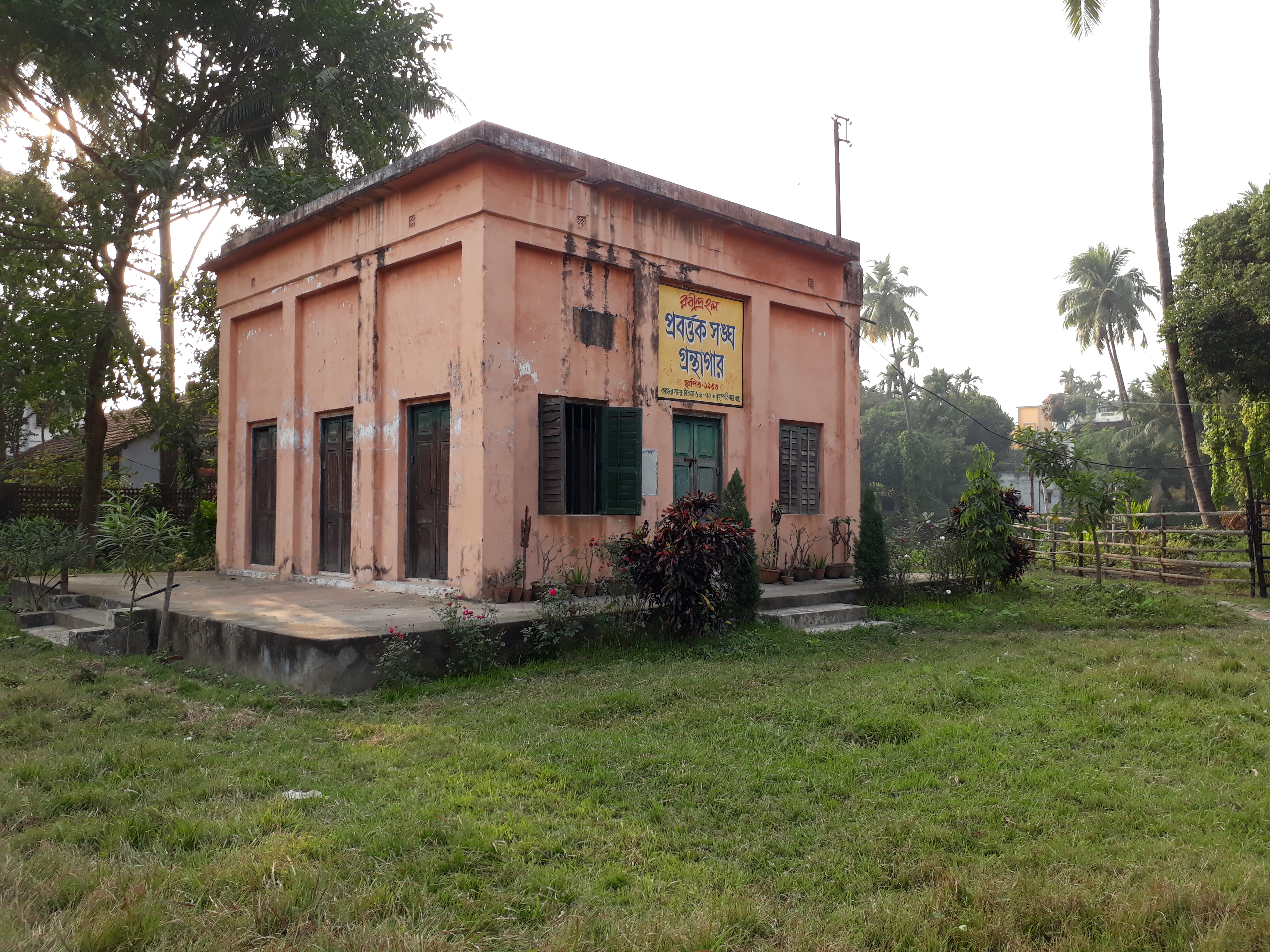 Nationalist revolutionary organization of Chandannagar, Hooghly. West Bengal